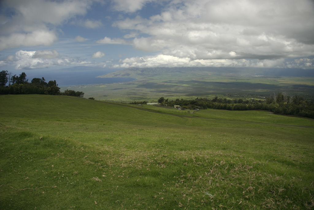 A look down to Maui from the base of Polipoli Spring State Recreation Area